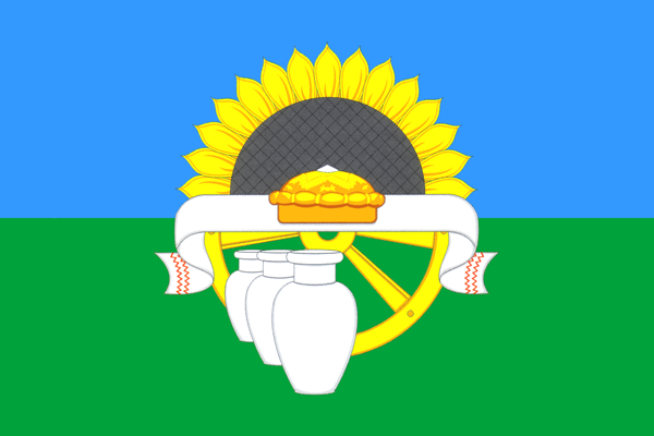 Flag of Beloglinsky rayon, Krasnodar Territory, Russia